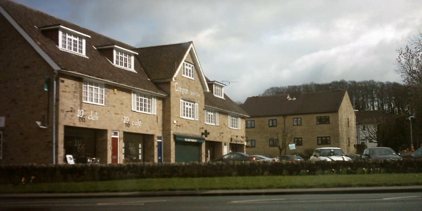 Elizabeth Court precinct, Western parade, Collingham, West Yorkshire